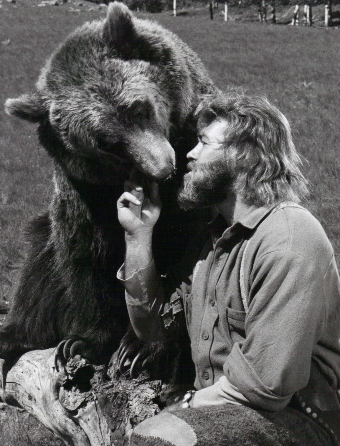 Photo of Dan Haggerty as Grizzly Adams and Ben from the television program The Life and Times of Grizzly Adams.